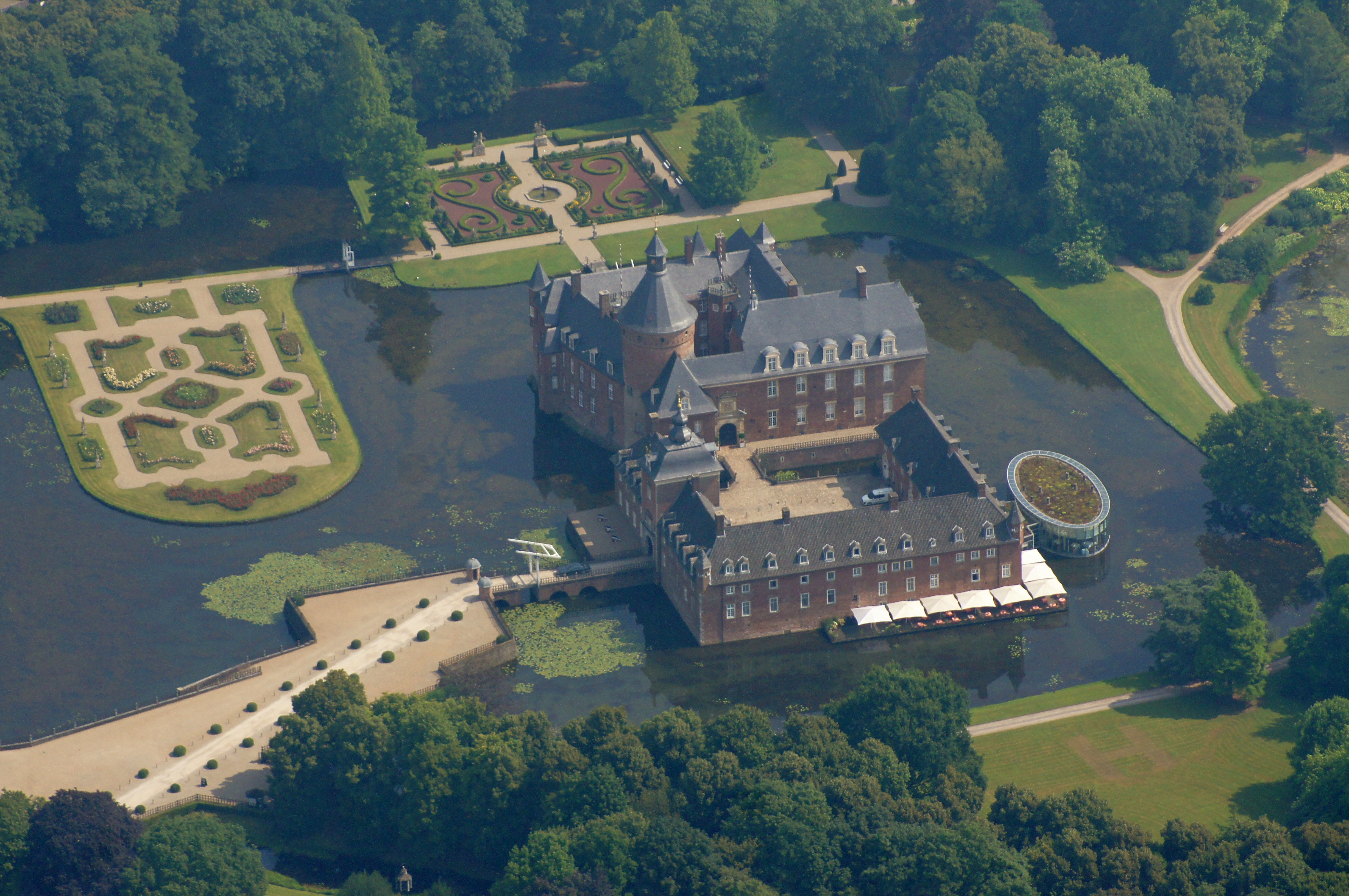 The castle of Anholt is situated in Anholt, Isselburg, district of Borken in North Rhine-Westphalia, Germany.